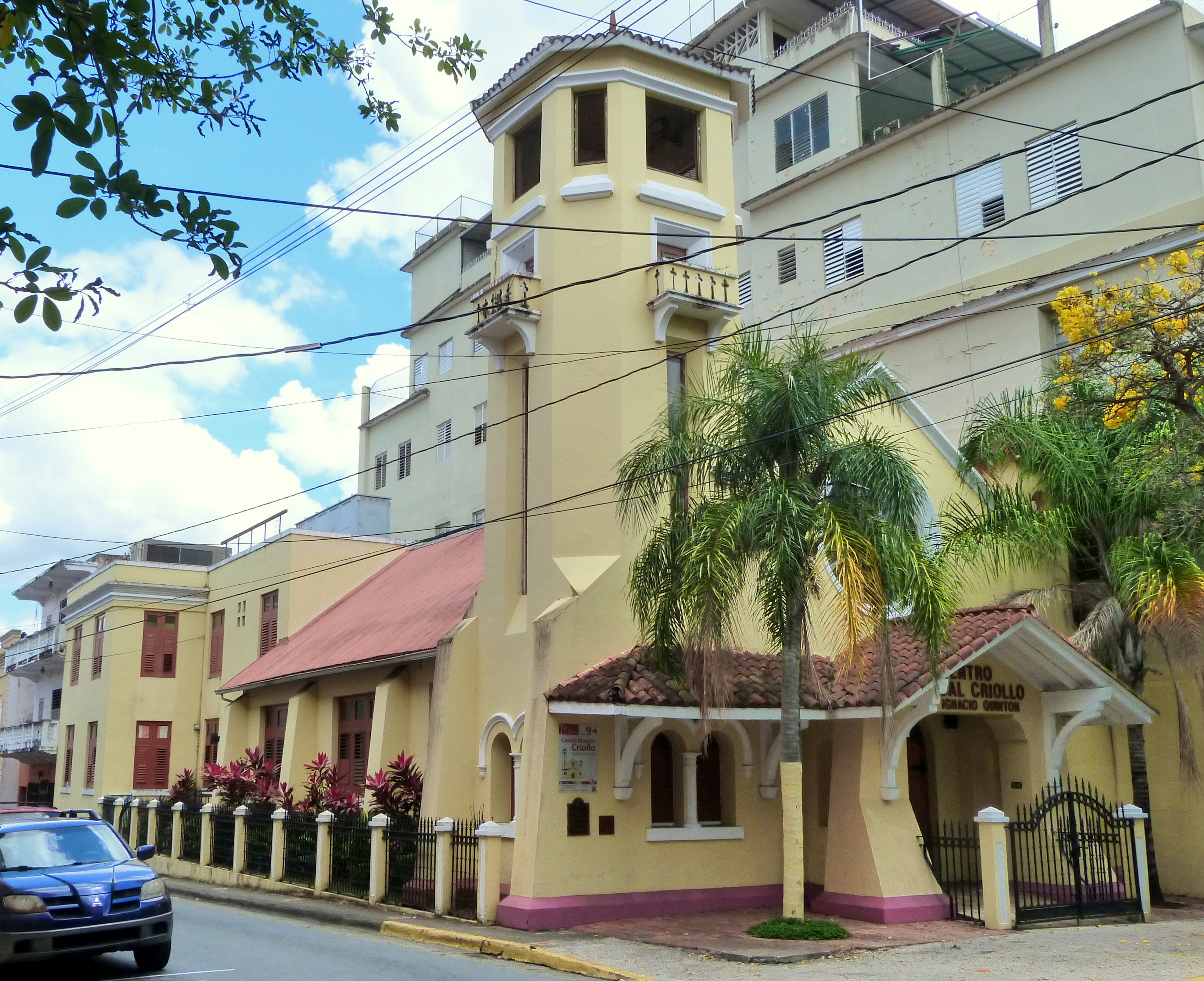 The José Ignacio Quintón Center for Criollo Music, located at the corner of Calle Ruiz Belvis and Calle Intendente Ramírez in Caguas, Puerto Rico. The center occupies the historic First Baptist Church of Caguas (built 1907–1909), and is listed on the U.S. National Register of Historic Places.